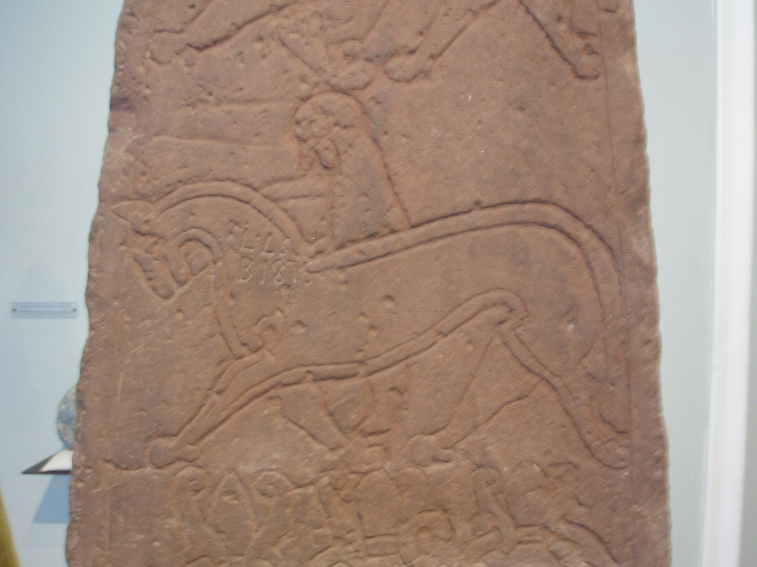 A detail from the Dynna runestone, as displayed in the Museum of Cultural History in Oslo, Norway. The Dynna stone is according to the object display in the museum dated to ca. 1040-1050 CE, and was discovered in Dynna, Gran, Oppland, Norway. The stone features Christian iconography.